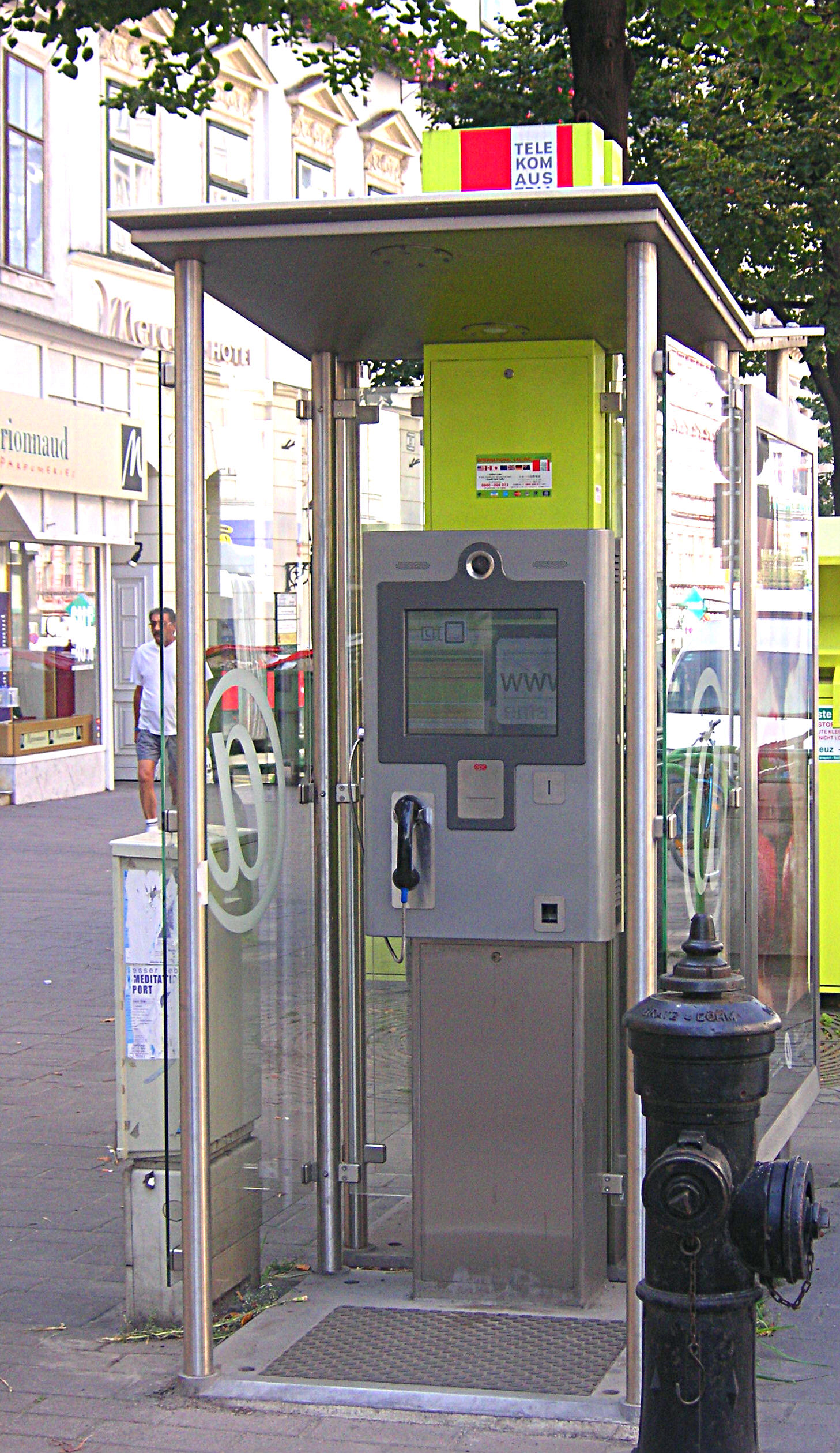 Photo by KF.